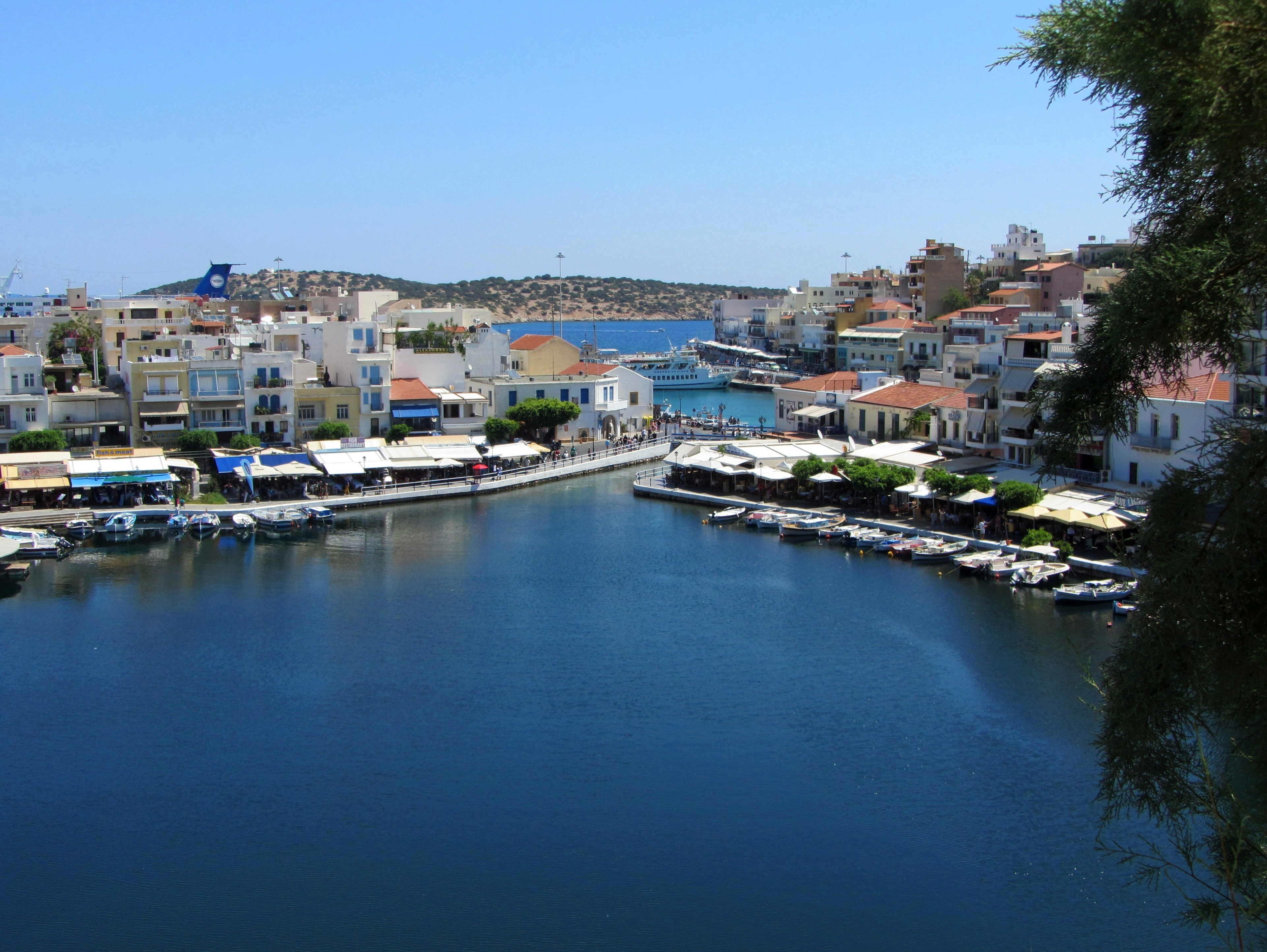 A view on the Lake Voulismeni in the city of Agios Nikolaos on the Island of Crete. The Mediterranean Sea is in the background.